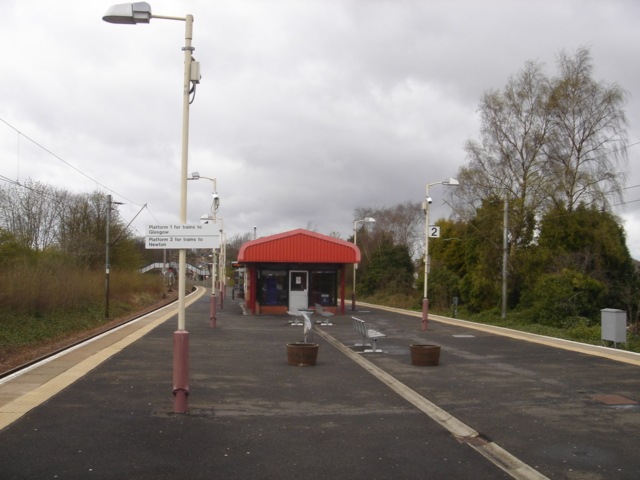 Burnside railway station, South Lanarkshire, Scotland. Looking west towards Croftfoot.